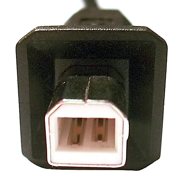 This image shows a USB male plug type B.